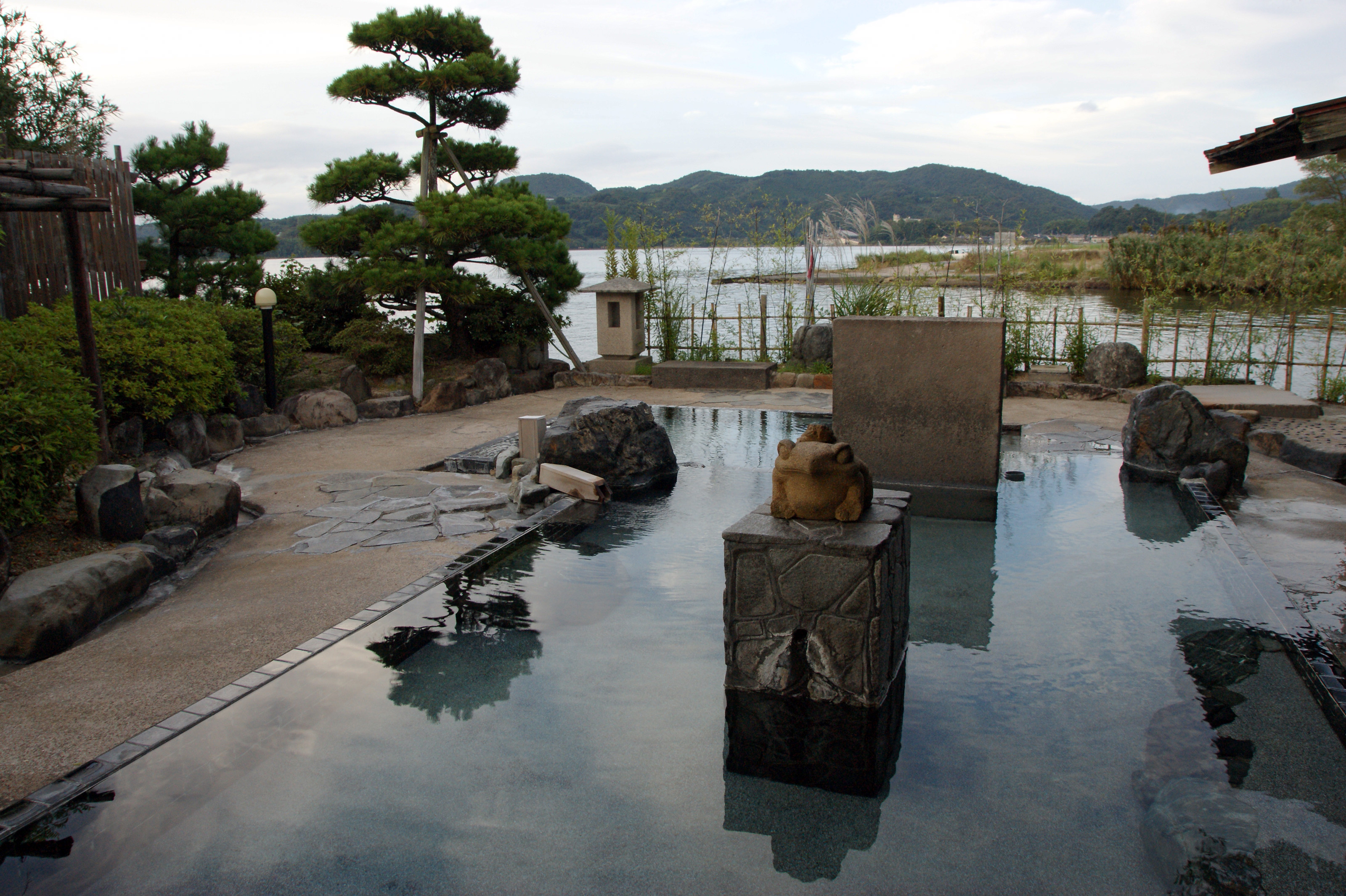 Togo Onsen, Yurihama, Tottori prefecture, Japan